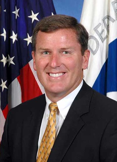 Sean T. Connaughton, United States Marine Administrator, took office 2006.